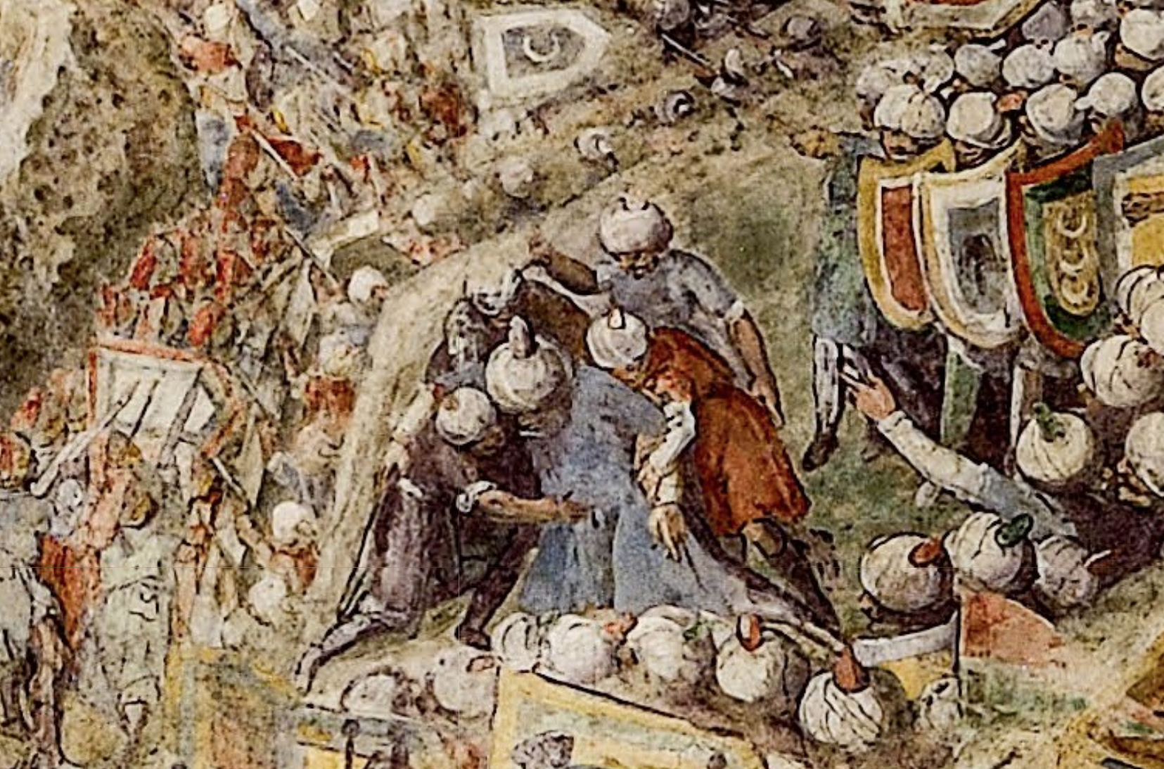 Detail of the fresco "La presa di S. Elmo. 23.06.1565"